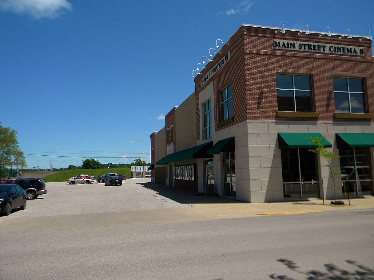 Davidson Building Listed street number for site is the middle of the parking area.